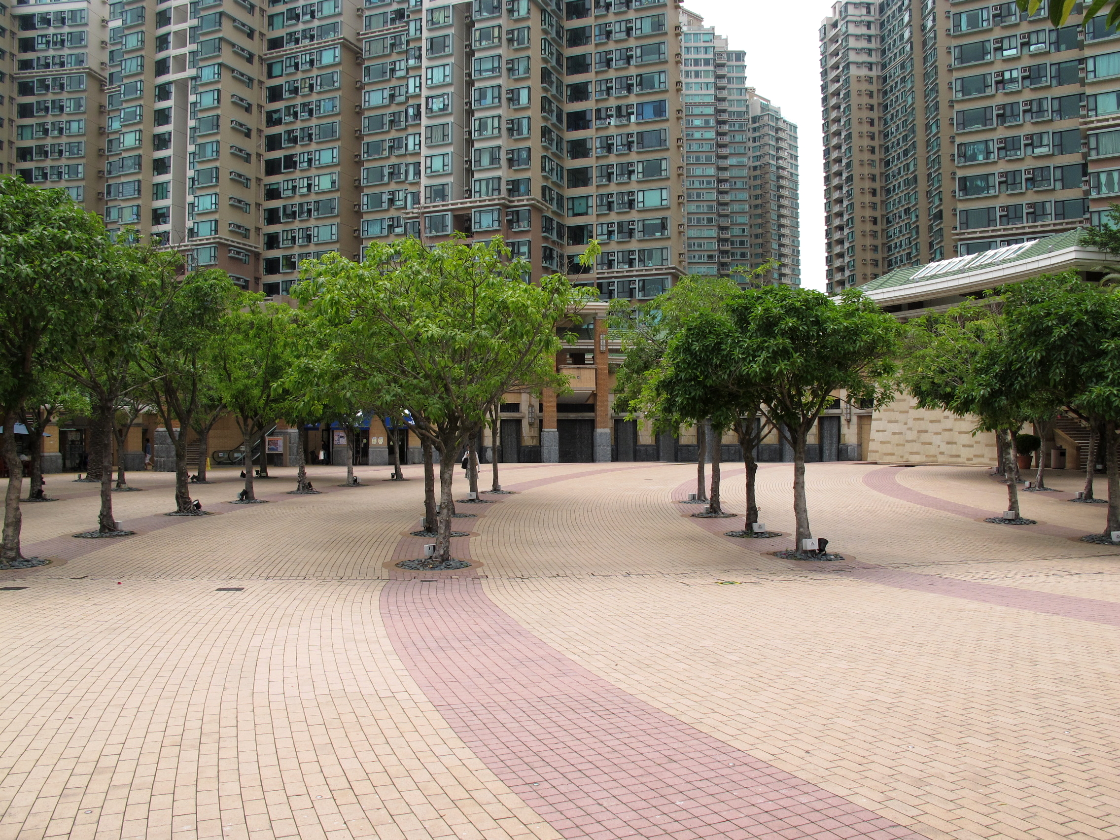 Park Island Mall Plaza